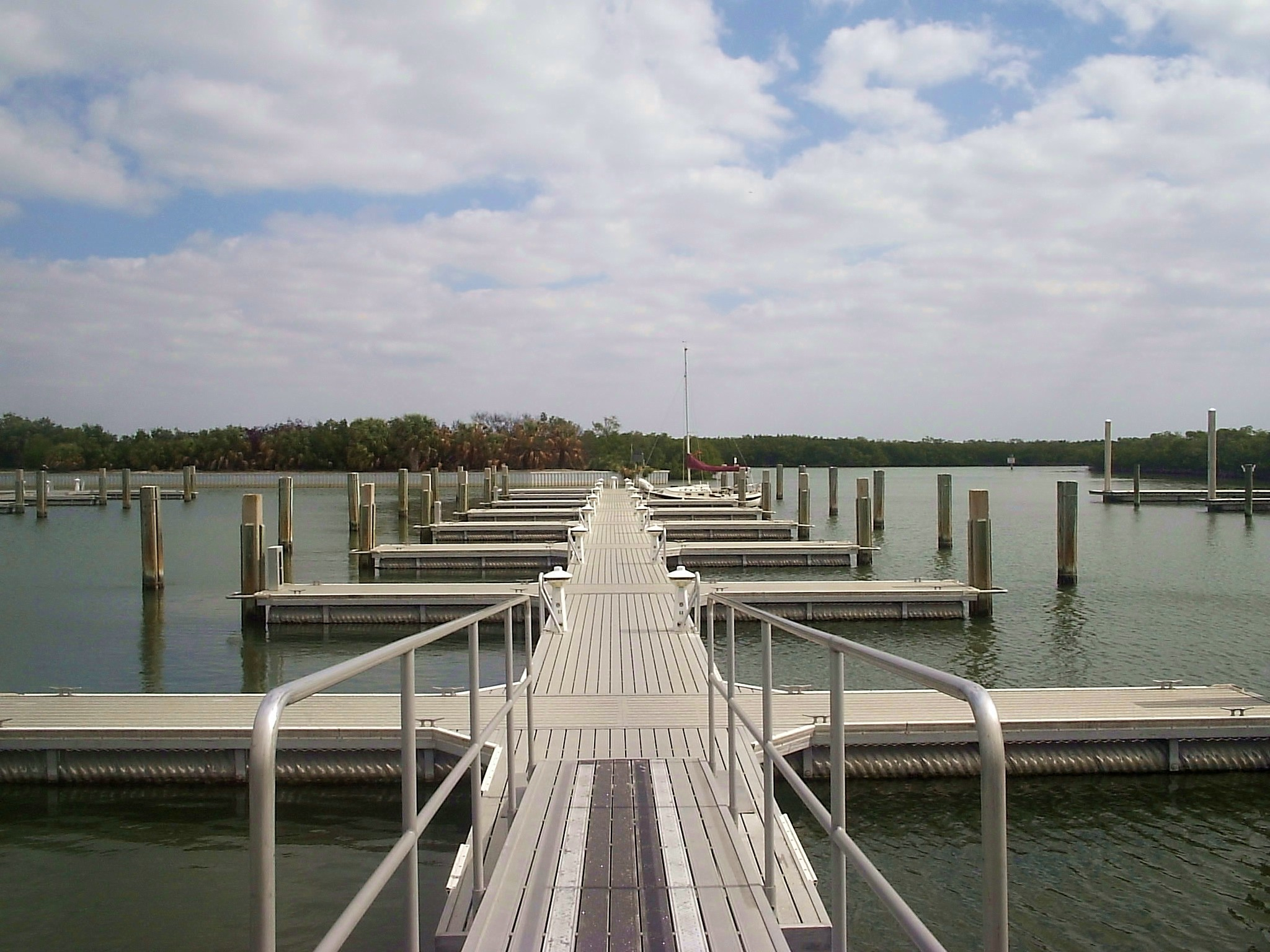 Taken by me March 6, 2006 at Caladesi Island State Park. Ramp to docks at marina. Olympus Camedia D-395 digital camera. Mikereichold 22:39, 14 March 2006 (UTC)